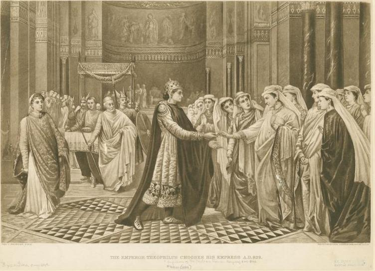 The Byzantine emperor Theophilos chooses Theodora as his empress over Kassiane in a bride show. Original caption: The emperor Theophilus chooses his empress A.D. 829.